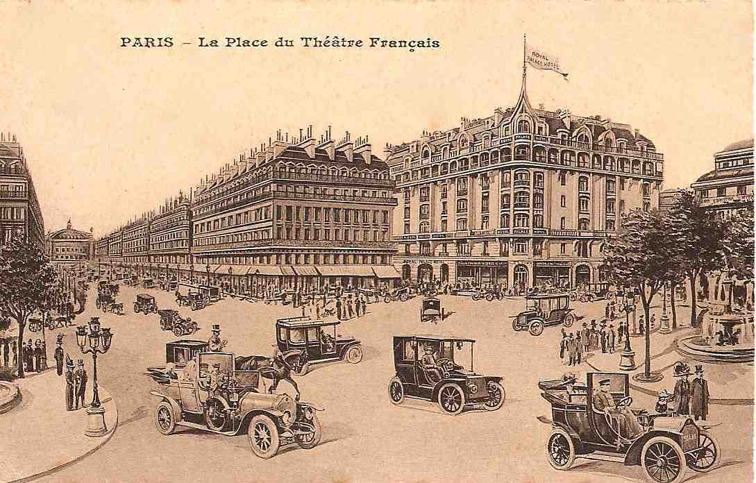 Drawing of the former Royal Palace Hotel located 8 rue de Richelieu, Paris